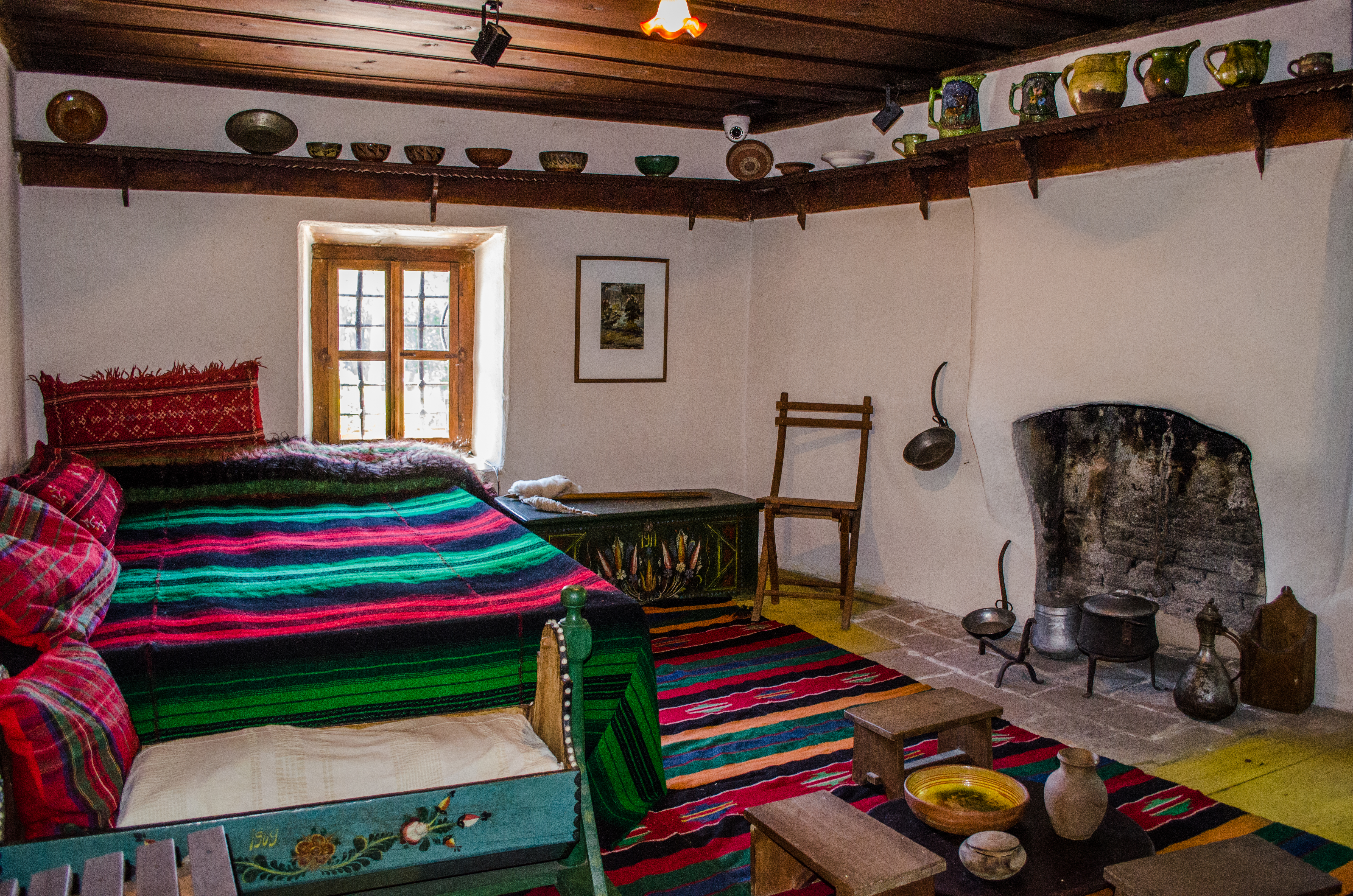 The Nikola Vaptsarov House Museum in Bansko